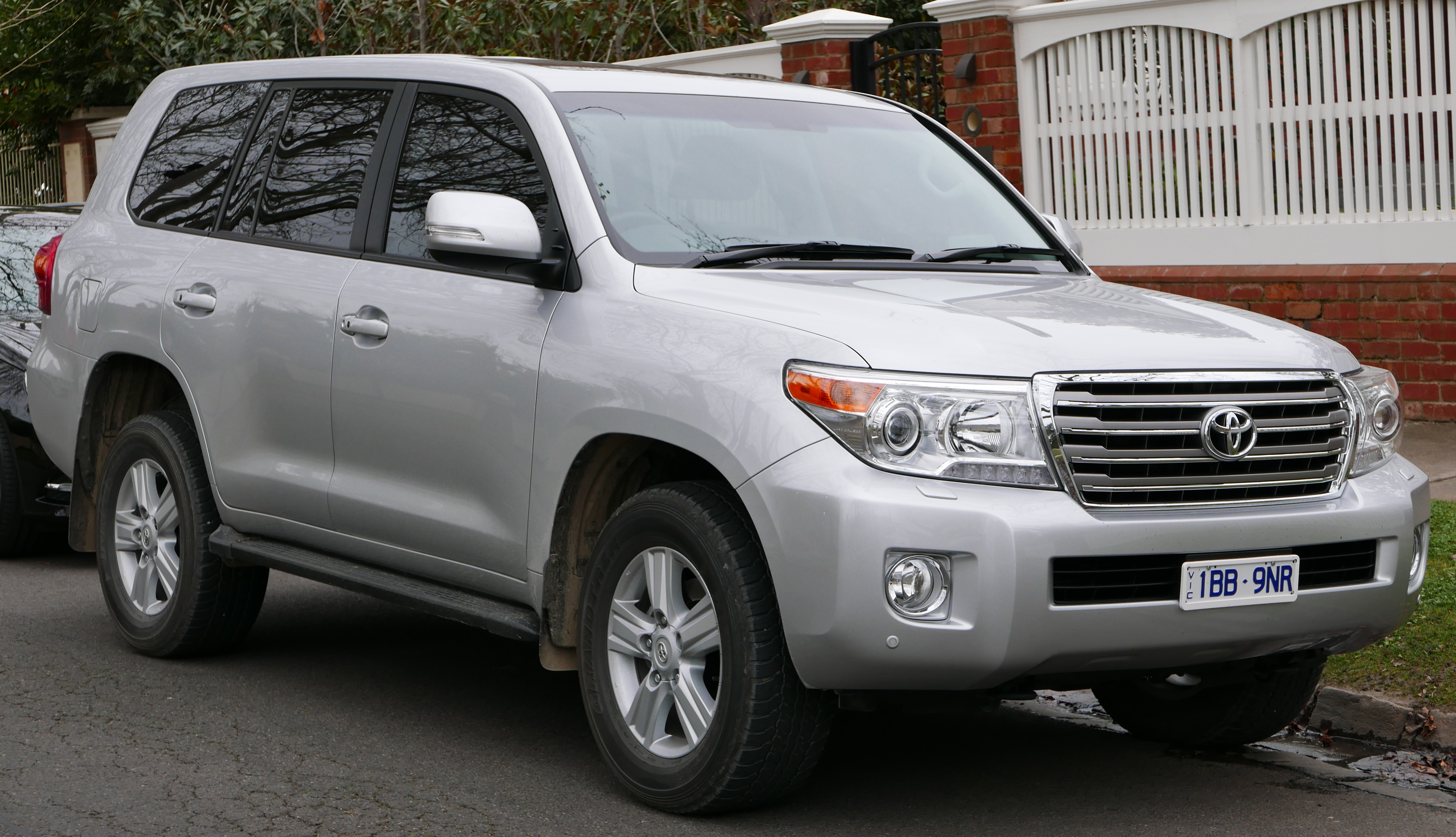 2014 Toyota Land Cruiser (VDJ200R) VX wagon. Photographed in Kew, Victoria, Australia. Vehicle registration enquiry resultsJurisdictionVictoriaRegistration1BB9NRChassis codeJTMHV05J404136405Engine code1VD0241213Compliance date2014-03Year of manufacture2014